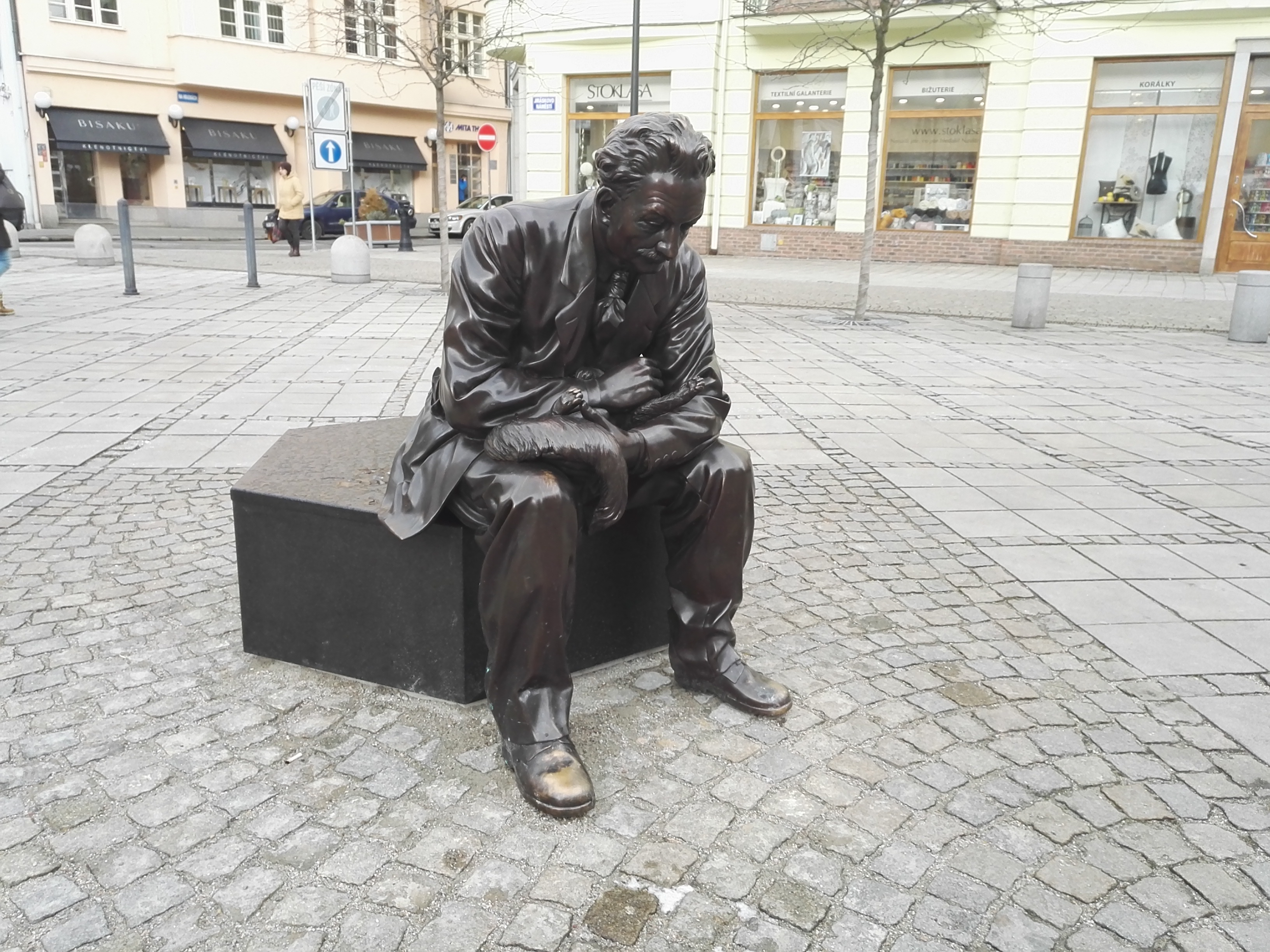 Moravská Ostrava. Statue of Leoš Janáček with fox Bystrouška by David Moješčík, erected in 2017.